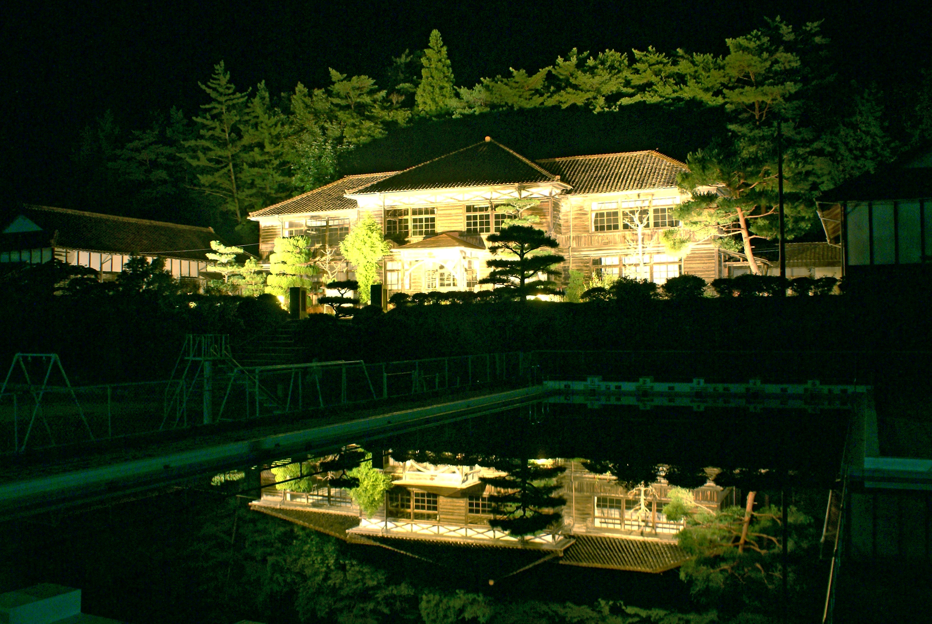 Fukiya elementary school, Fukiya, Takahashi, Okayama prefecture, Japan